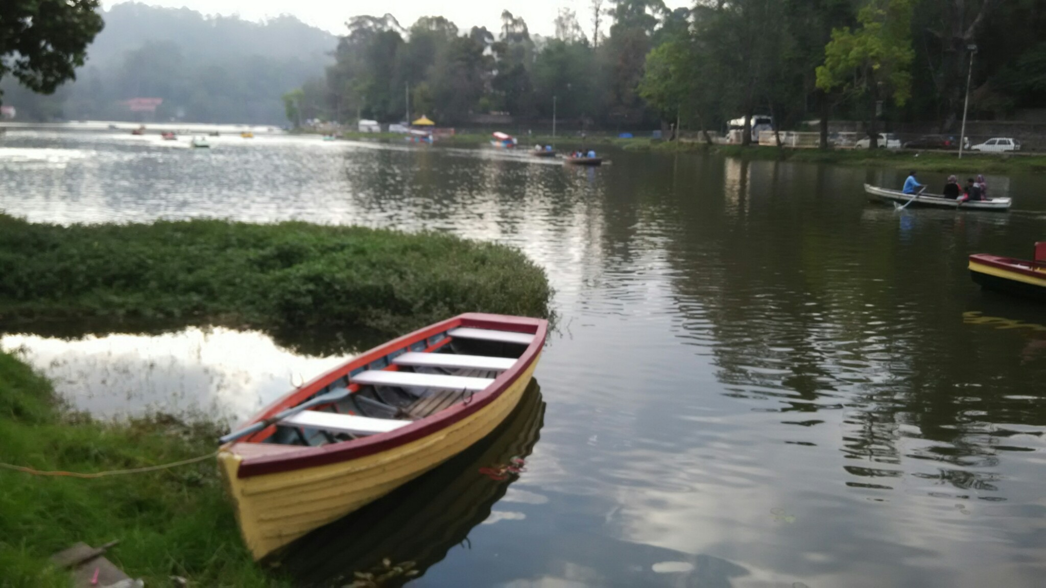 Boat in Kodaikanal lake, Dindigul District, Tamilnadu, India.